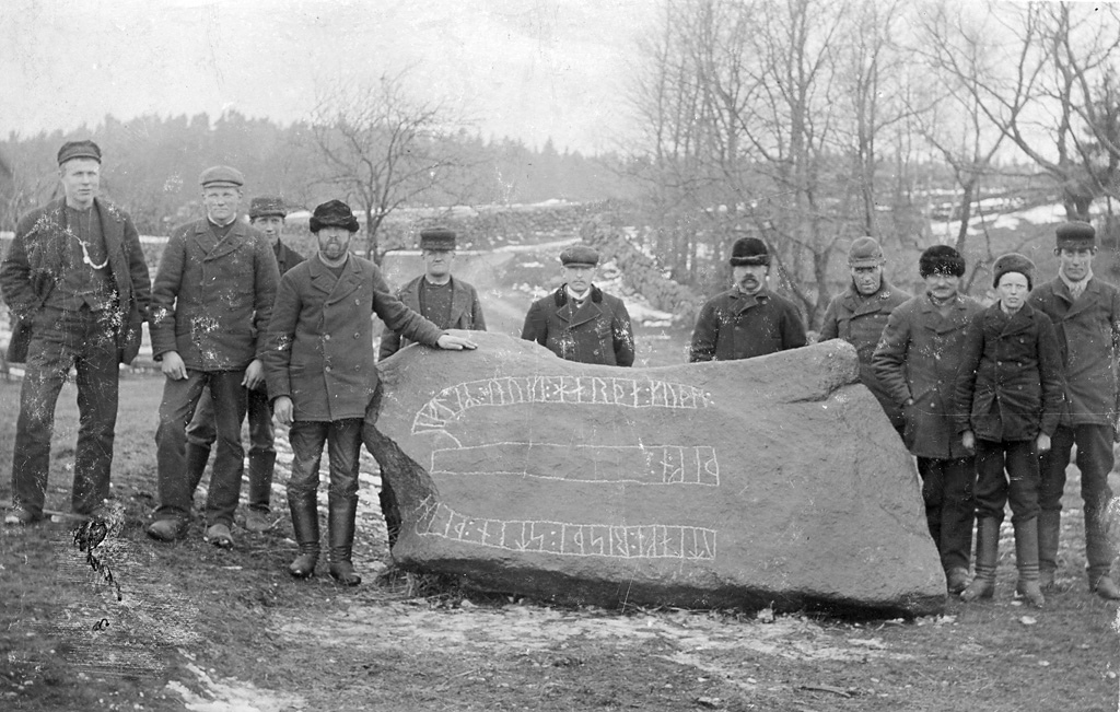 Men at a rune stone (Vg 62) in Ballstorp, Edsvära. The inscription says: "Utlage raised this stone in memory of Öjvind, a very good tegn". A "tegn" might be a peasant proprietor, yeoman or a warrior.